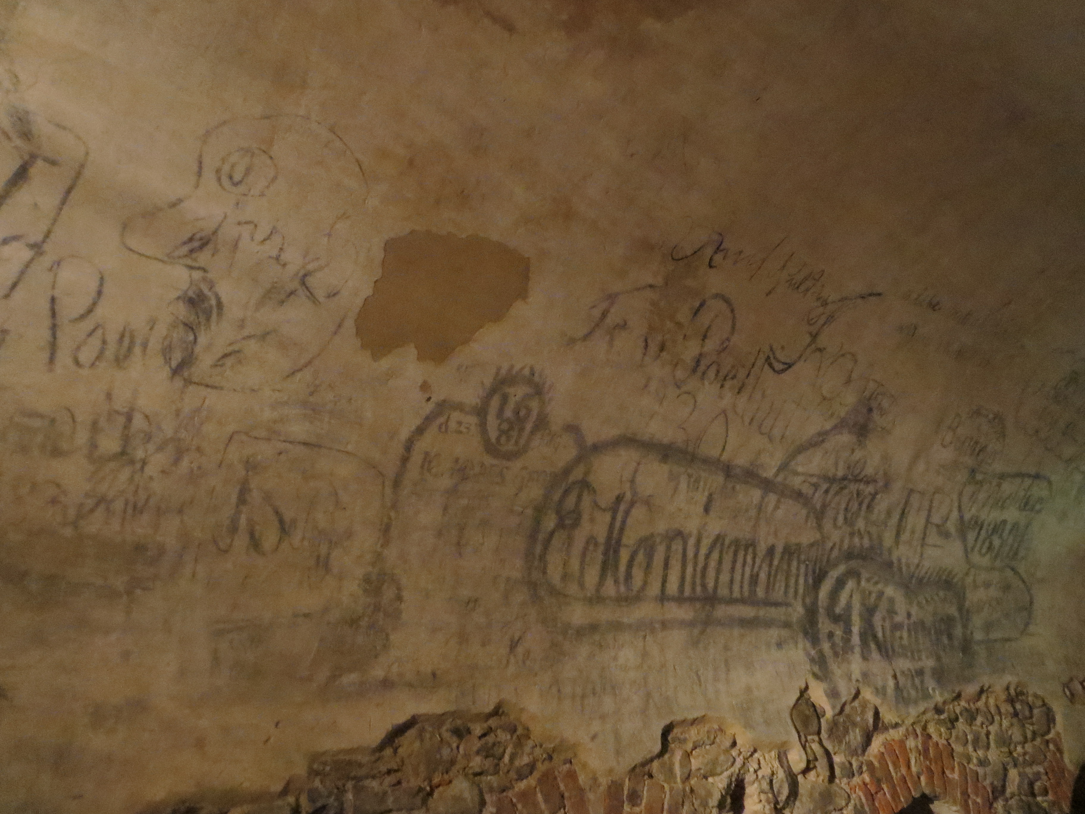 Francisceum Karzer